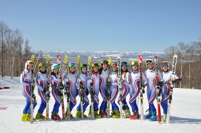 Женская сборная (сезон 2013/2014)